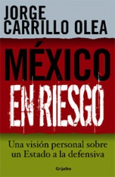 México en riesgo